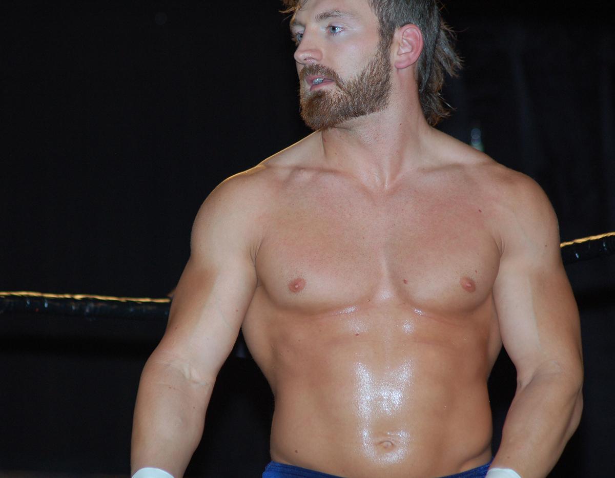 I (Sayuncle) took this photo of Matt at AAW's 5th Anniversary Show in Berwyn IL.